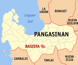 Map of Pangasinan showing the location of Basista